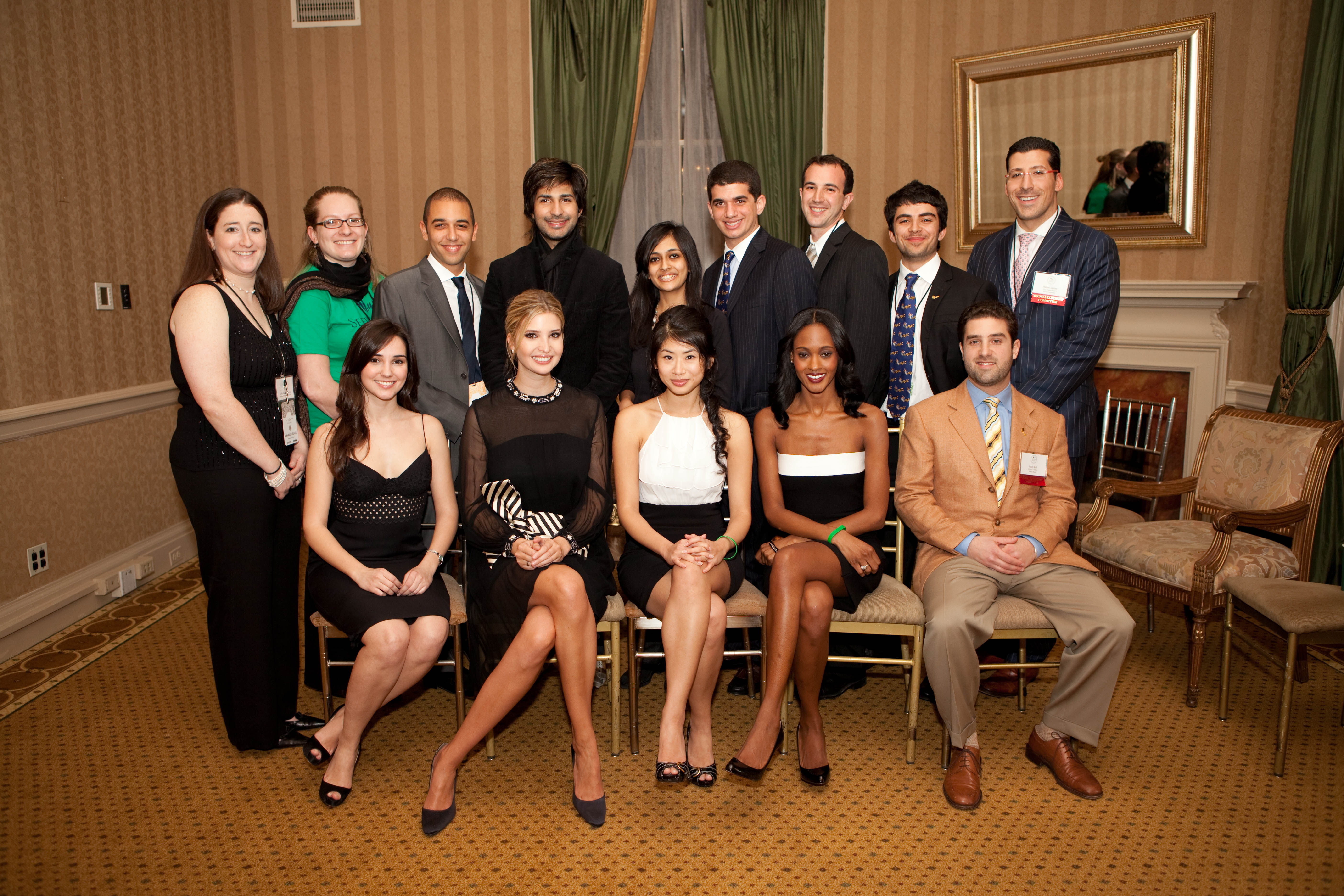 Seeds of Peace 2009 (19 February)